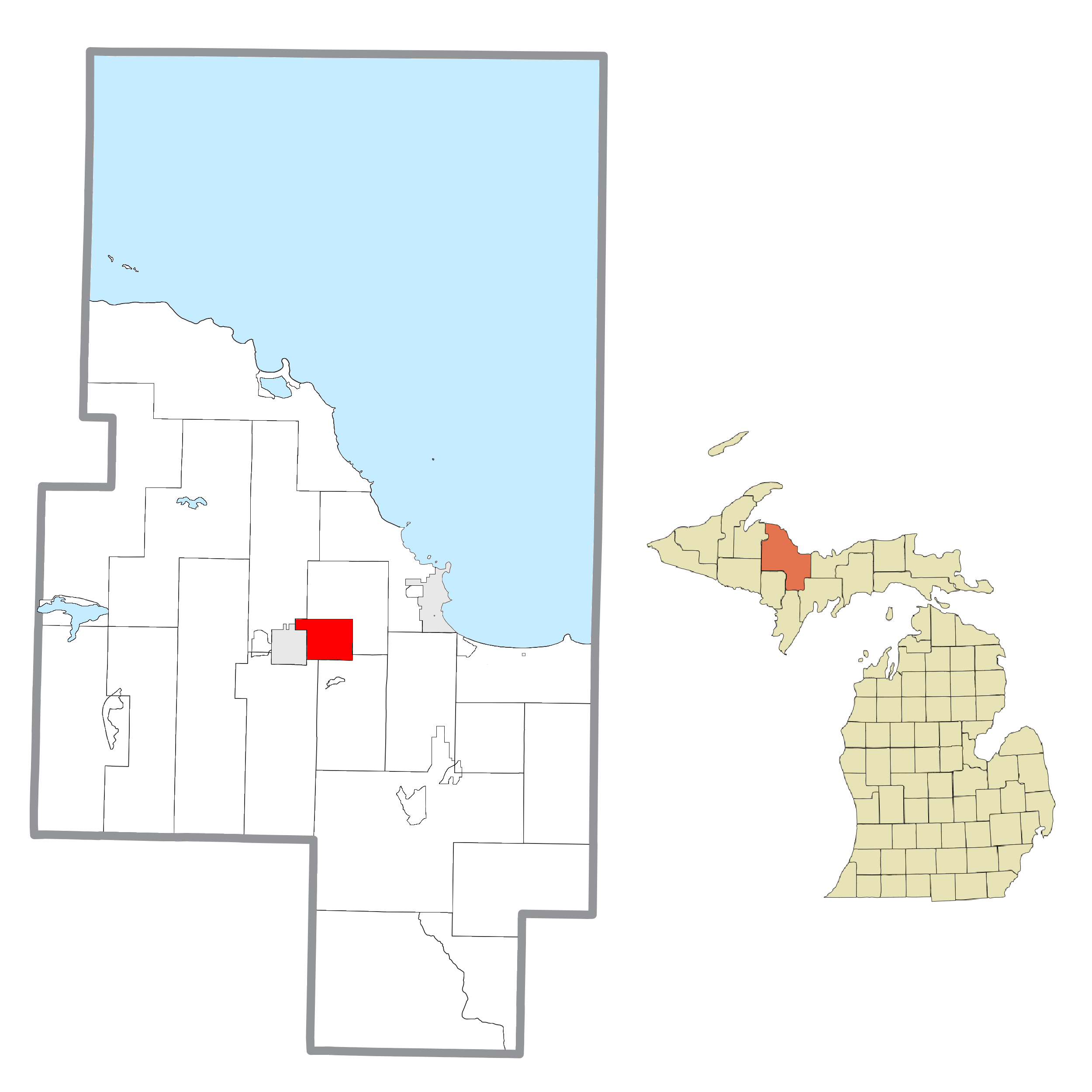 Negaunee, MI